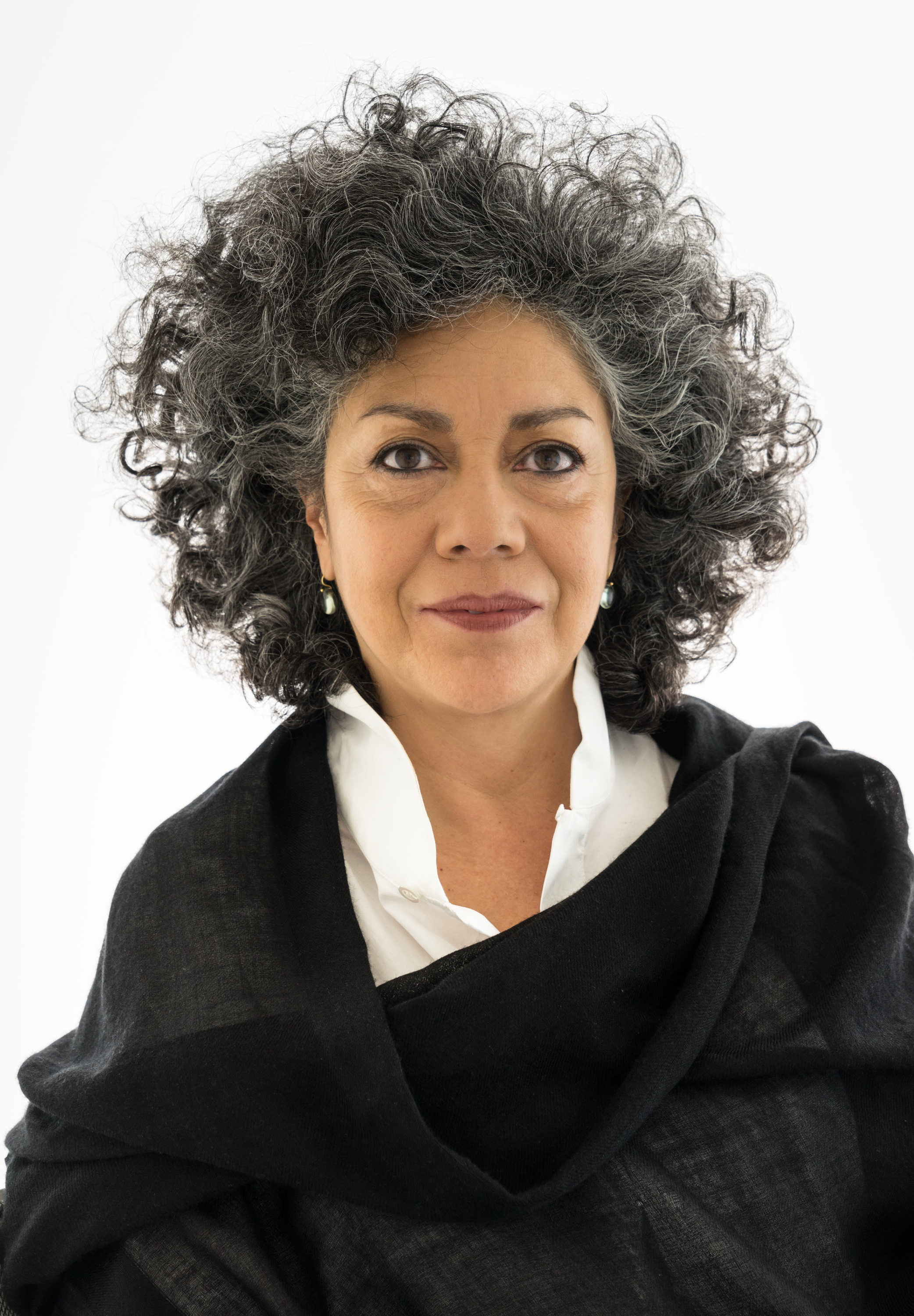 Sculptor Doris Salcedo, photograph taken as part of Guggenheim exhibition This file was provided to Wikimedia Commons by the Solomon R. Guggenheim Museum as part of a cooperation project. The Solomon R. Guggenheim Museum provides images depicting artworks which are public domain or licensed under a free license.